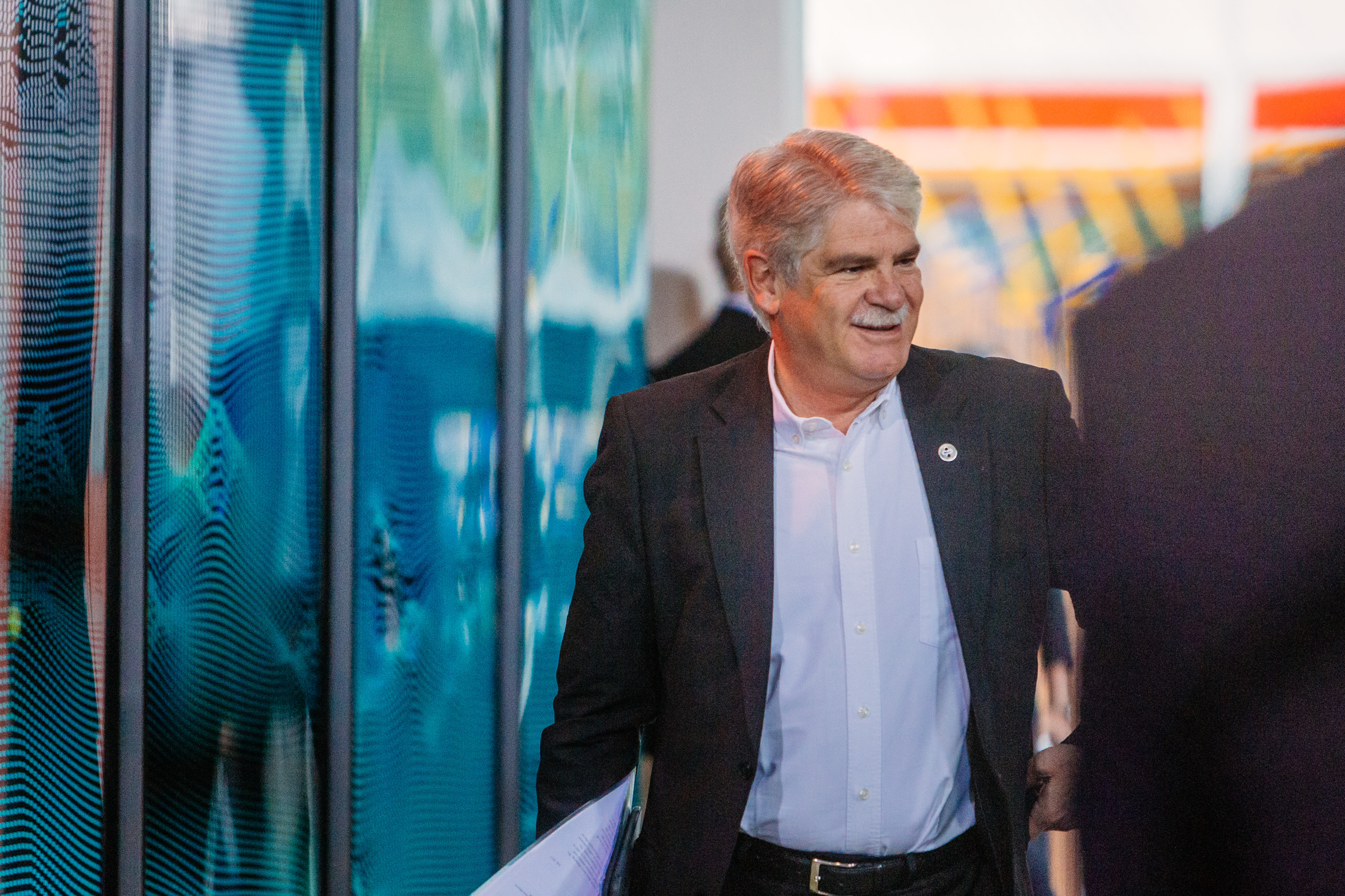 Alfonso Dastis, Minister, Ministry of Foreign Affairs, Spain Photo: Arno Mikkor (EU2017EE)